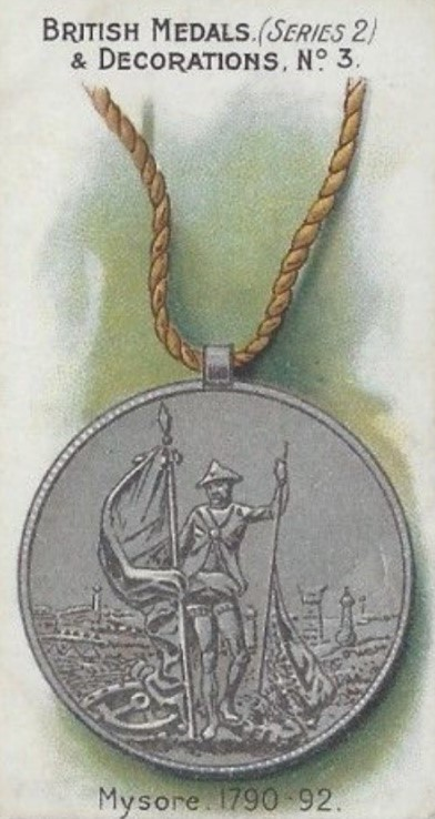 Medal awarded to Honourable East India Company native soldiers for Mysore campaign of 1790-2, depicted on Taddy cigarette card